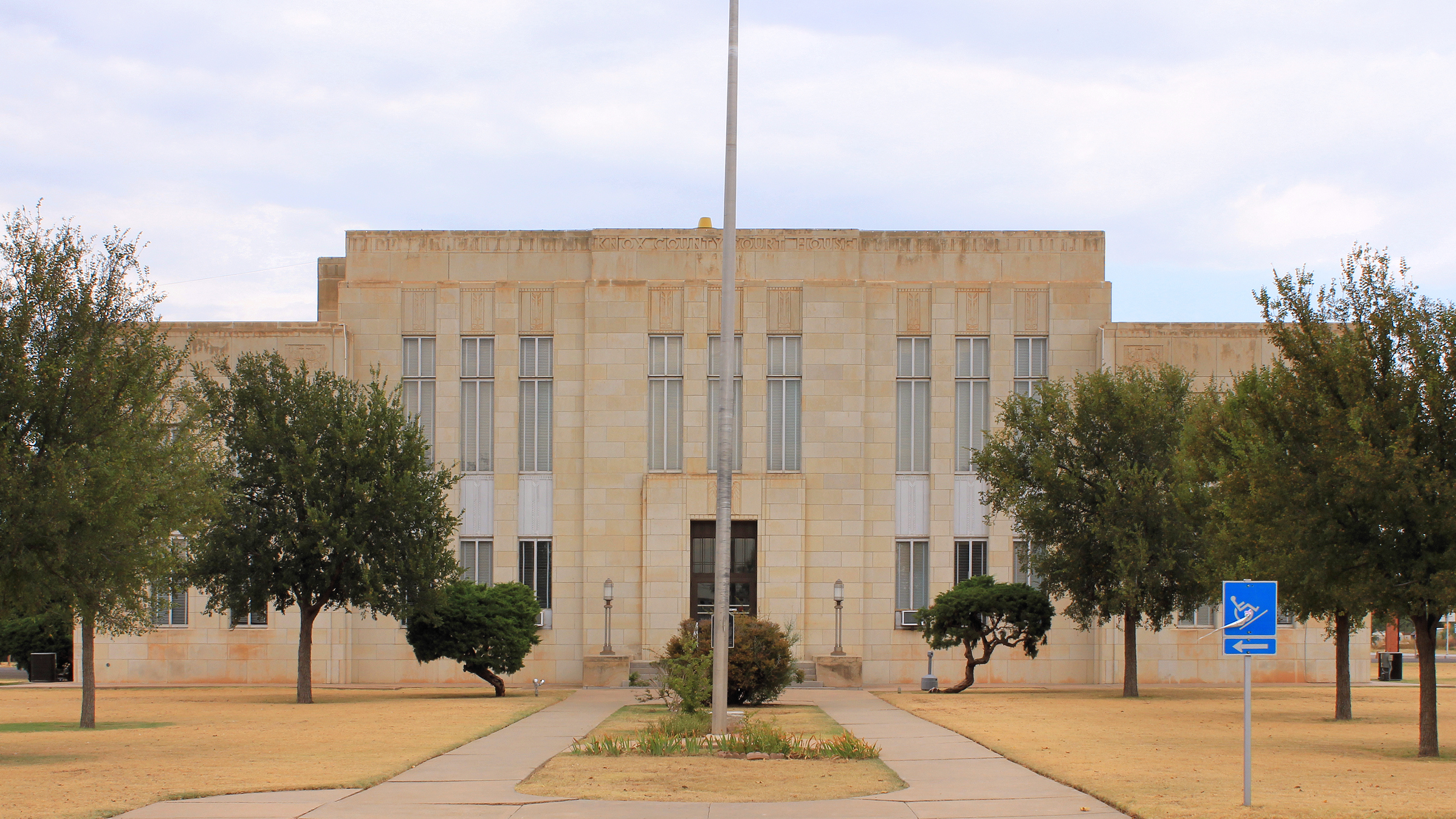 Knox County, Texas Courthouse in Benjamin, Texas, United States in 2015.